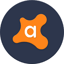 Avast Mobile Security & Antivirus logo